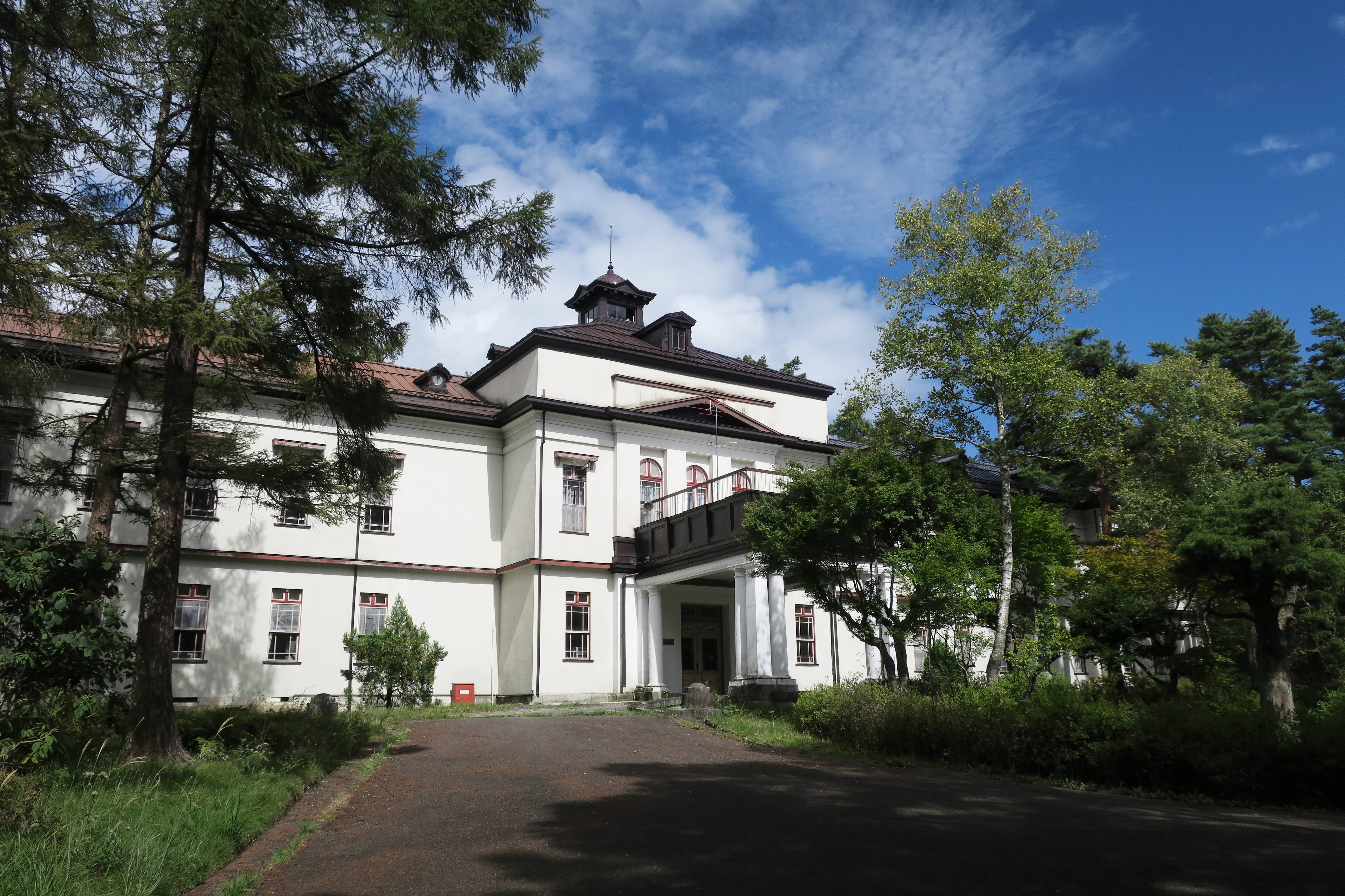 Nagano Prefecture Autonomic Training Center (Nagano, Nagano).